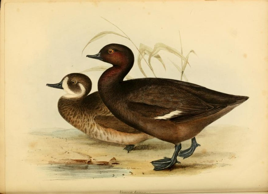 Nyroca brunnea (= Netta erythrophthalma) from "A monograph on the anatidae, or duck tribe" by Thomas Campbell Eyton